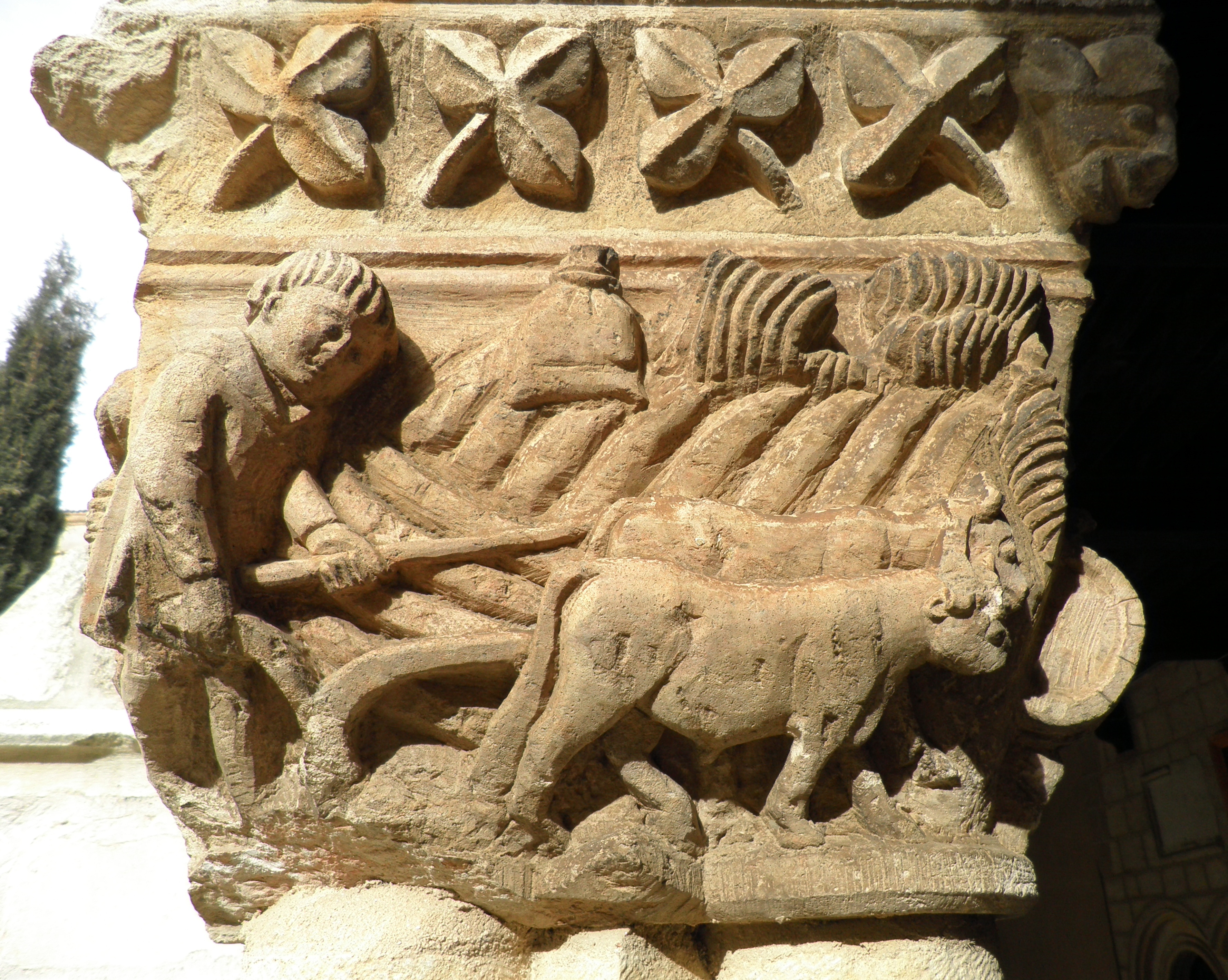 8th capital in easthern corridor of the church of Santa María la Real de Nieva, Segovia province, Spain. Plough works